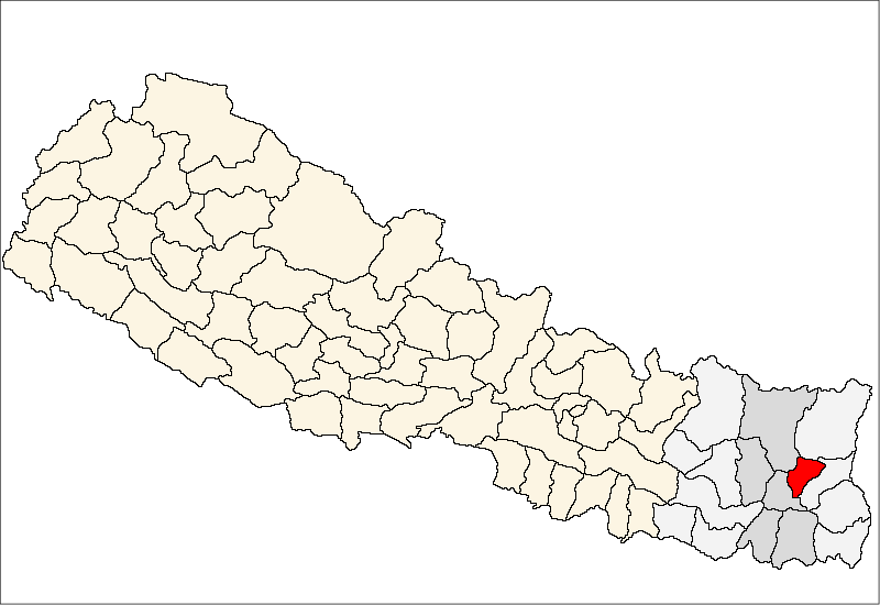 FrenchCarte de localisation dudistrict de Terhathum(wp-FR),au Népal (wp-FR).EnglishLocation map ofTerhathum District(wp-EN),in Nepal (wp-EN).